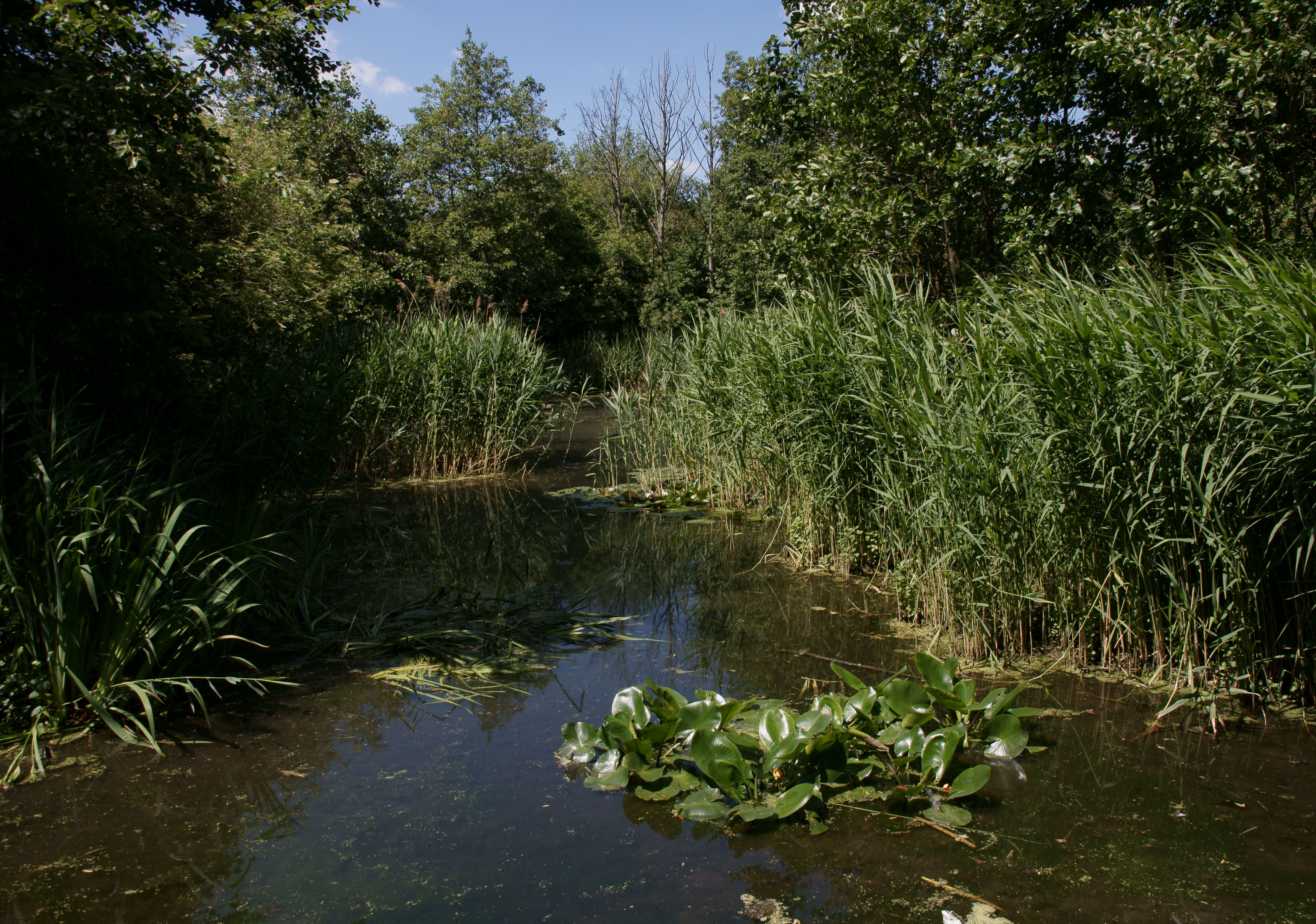 A pond in Camley Street Natural Park, yards from St Pancras International Station